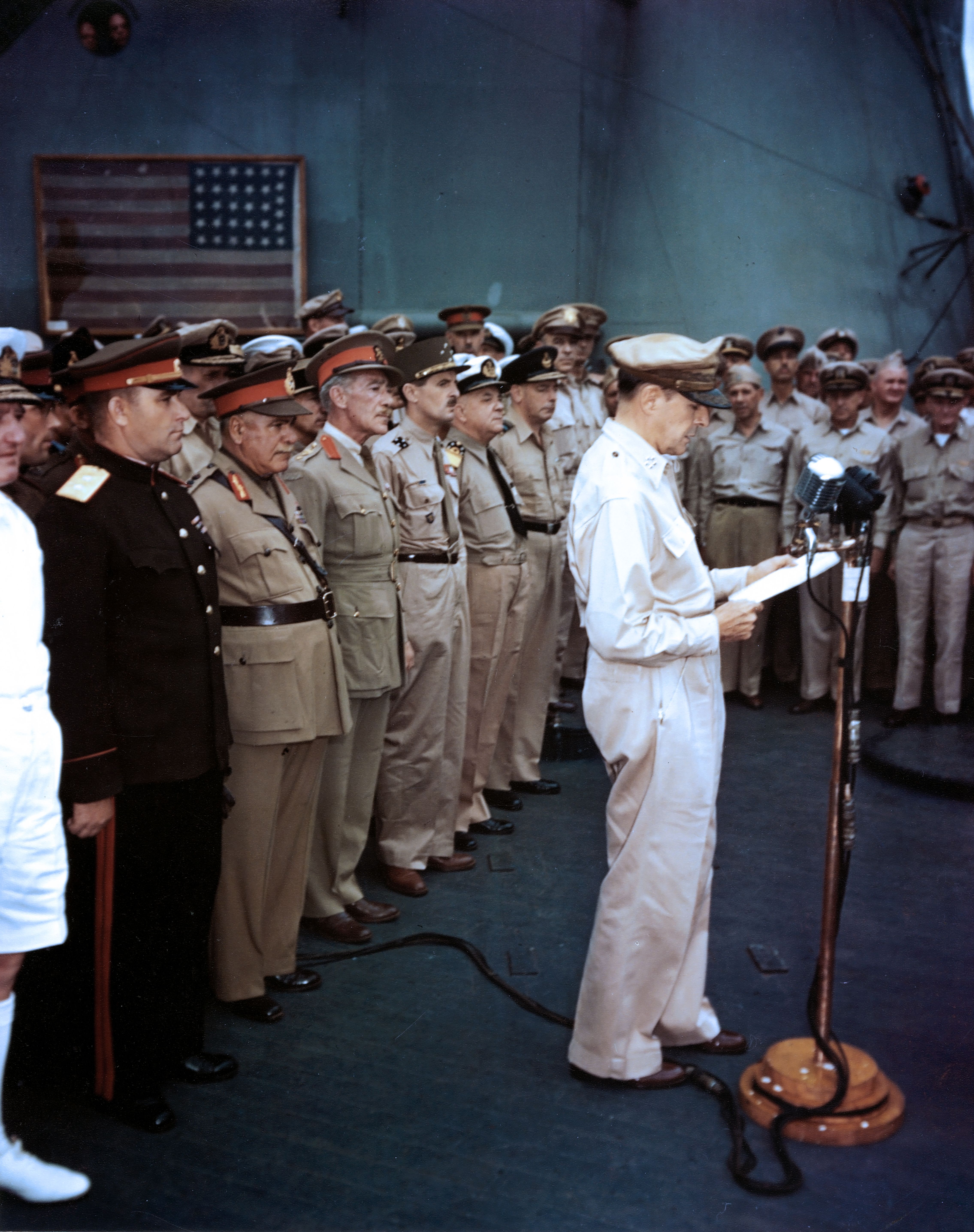 US Naval Historical Center caption: Surrender of Japan, Tokyo Bay, 2 September 1945 The photo bore the subtext "Photo # USA C-2717 Gen. MacArthur speaking, 2 Sept. 1945" General of the Army Douglas MacArthur, Supreme Allied Commander, reading his speech to open the surrender ceremonies, on board USS Missouri (BB-63). The representatives of the Allied Powers are behind him, including (from left to right): Admiral Sir Bruce Fraser, RN, United Kingdom; Lieutenant General Kuzma Derevyanko, Soviet Union; General Sir Thomas Blamey, Australia; Colonel Lawrence Moore Cosgrave, Canada; General Jacques LeClerc, France; Admiral Conrad E.L. Helfrich, The Netherlands and Air Vice Marshal Leonard M. Isitt, New Zealand. Lieutenant General Richard K. Sutherland, U.S. Army, is just to the right of Air Vice Marshal Isitt. Off camera, to left, are the representative of China, General Hsu Yung-chang, and the U.S. representative, Fleet Admiral Chester W. Nimitz, USN. Framed flag in upper left is that flown by Commodore Matthew C. Perry's flagship when she entered Tokyo Bay in 1853.